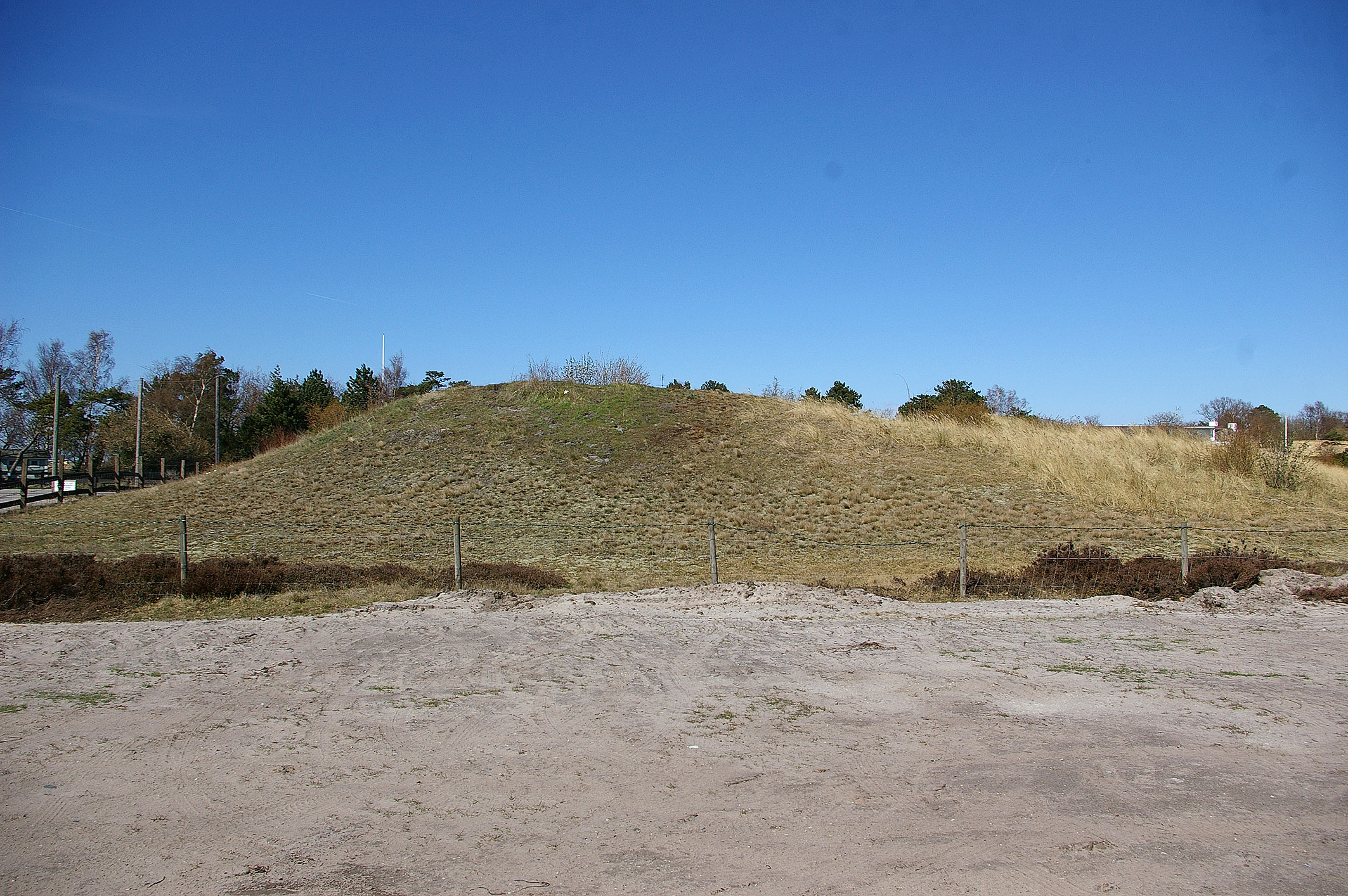 The oldest place for a lighthouse in Scandinavia (Falsterbo in Sweden från about 1229)